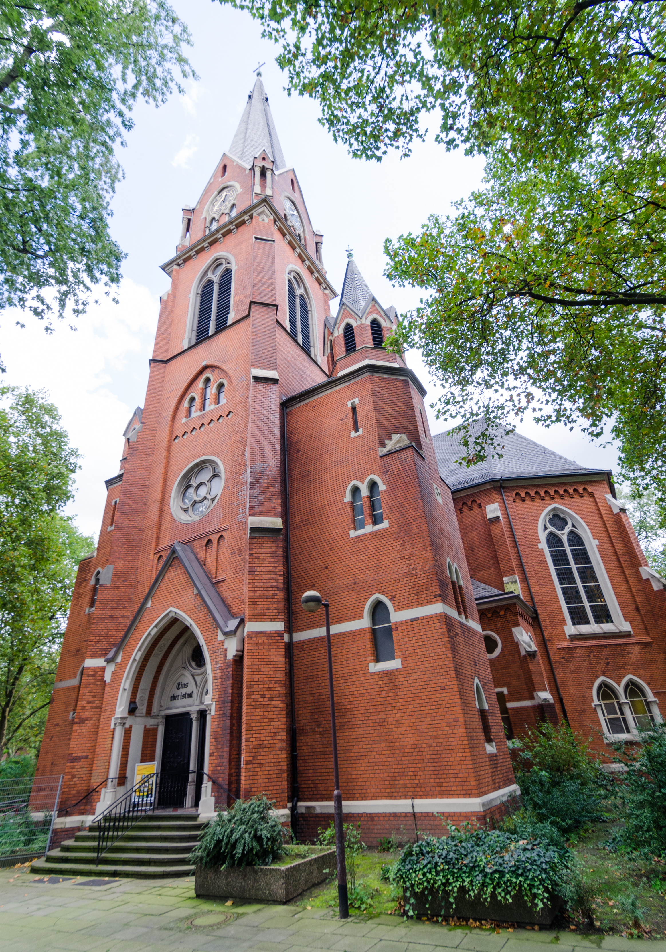 Duisburg (North Rhine-Westphalia, Germany) – borough Hamborn, district Marxloh – Protestant Holy Cross Church – northwest view: tower with entrance